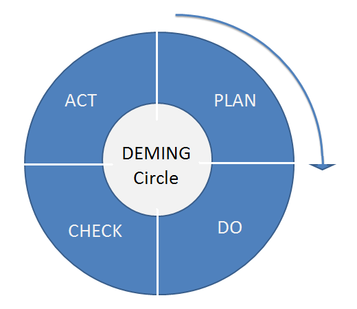 Plan-Do-Check-Act Deming circle, also known as the Shewart cycle, since Deming claimed he took the idea from him. Later Deming changed it to be Plan-Do-Study-Act, but the first version seems more popular and has become the defacto standard.